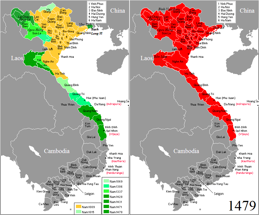 Vietnam in 1500.